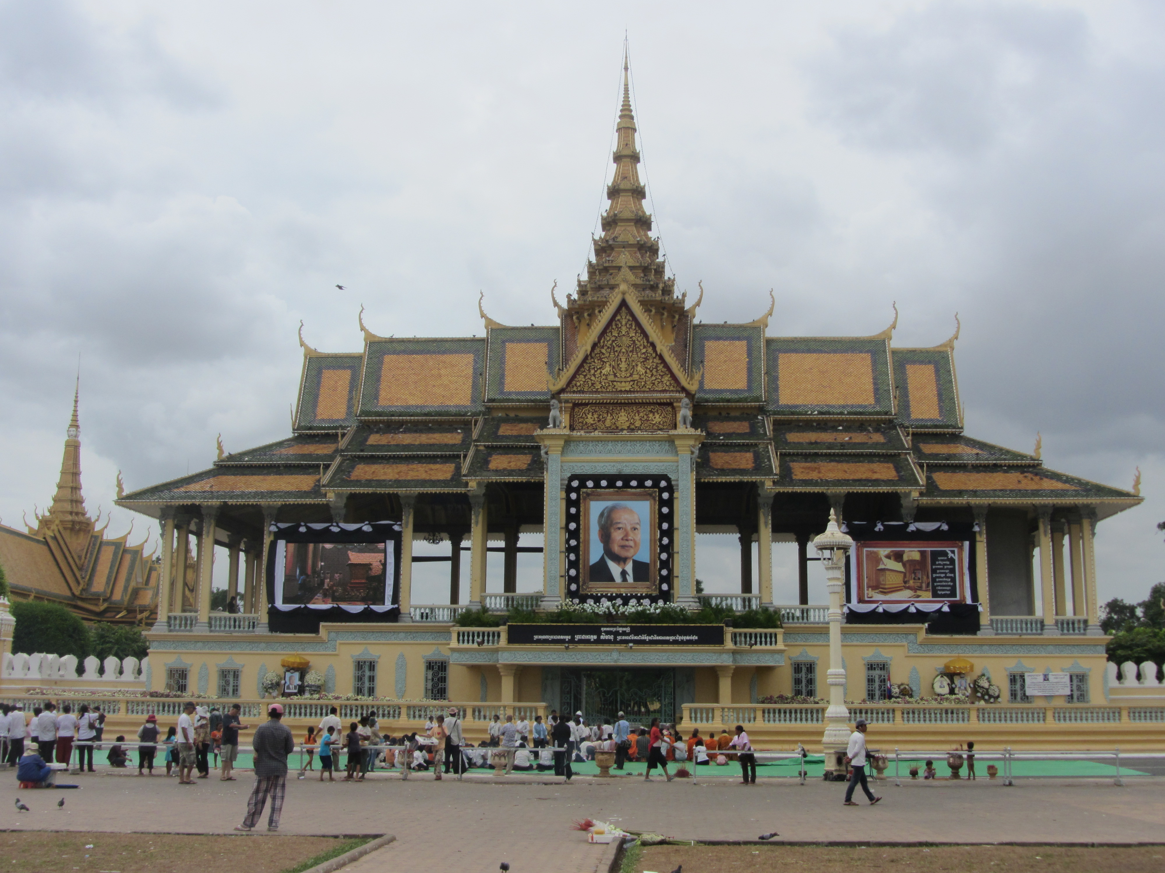 Chan Chhaya Pavilion - Royal Palace Phnom Penh (Preah Thineang Chan Chhaya) ភាសាខ្មែរ: ព្រះទីនាំងច័ន្ទឆាយា